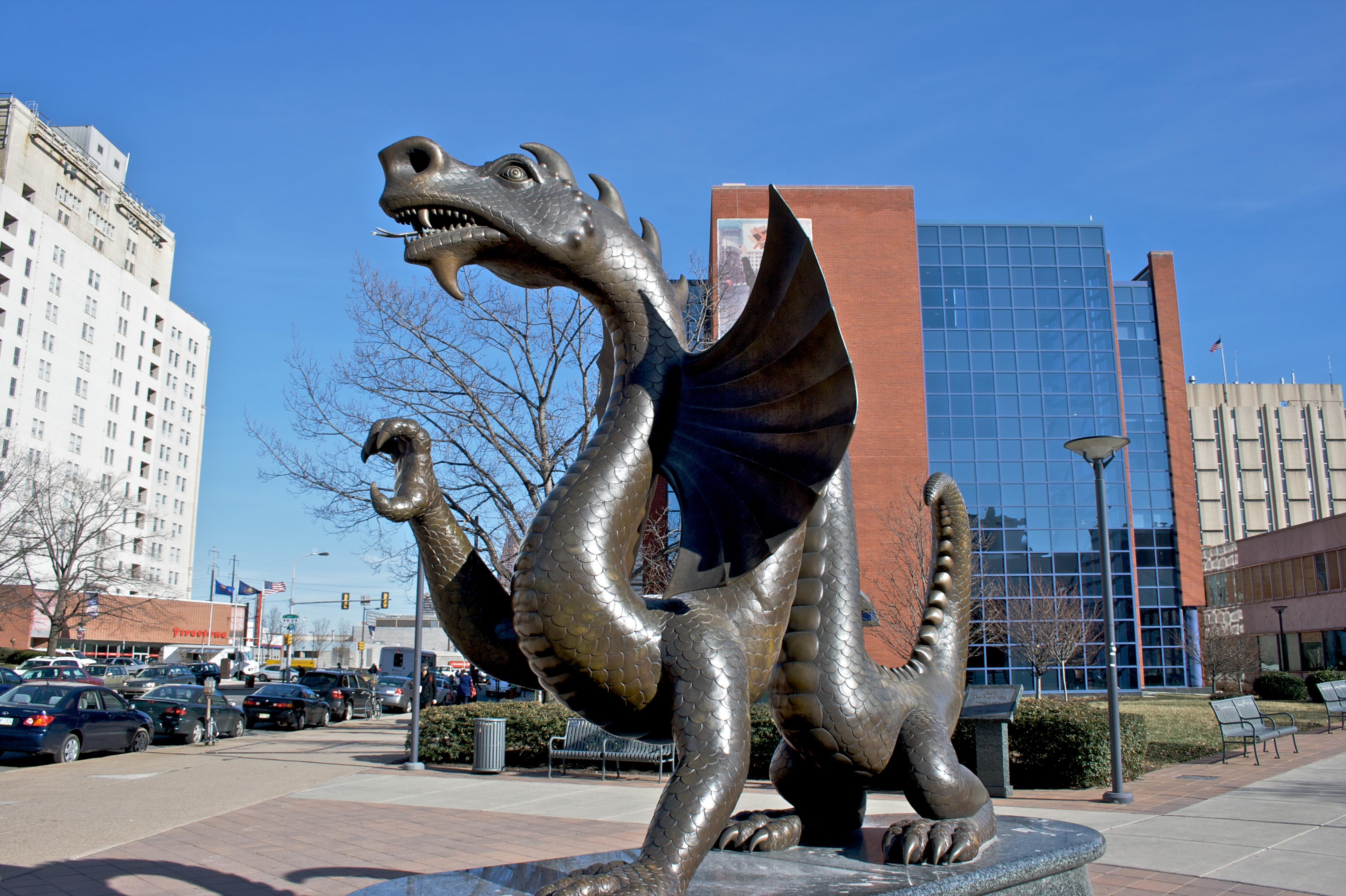 Mario the Magnificent, the Drexel Dragon, mascot of Drexel University standing on the corner of 33rd and Market Street with the Pearlstein Business Learning Center in the background.